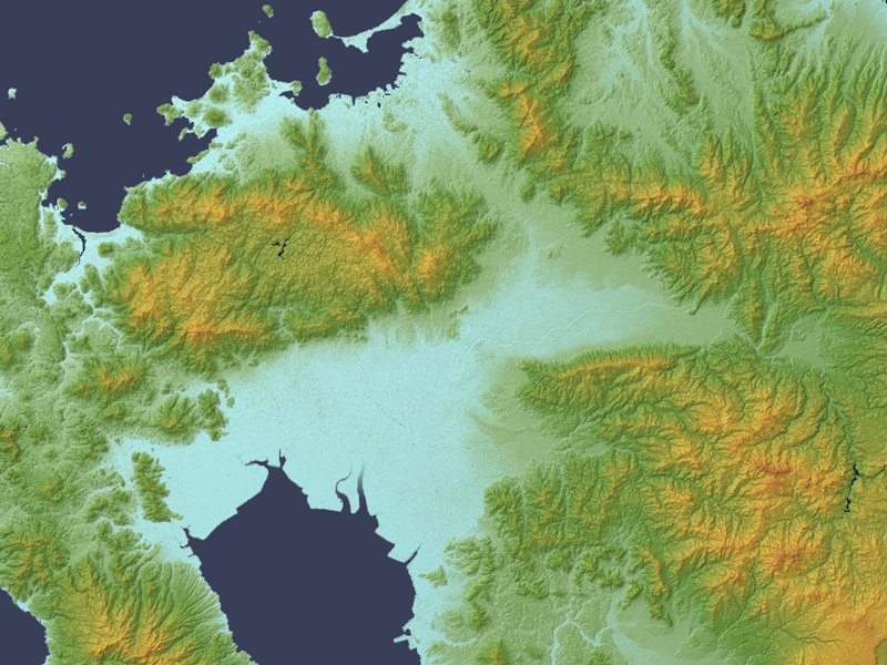 Tsukushi Plain in Kyushu, Japan.